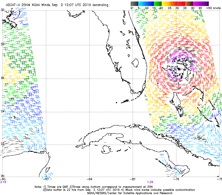 Hurricane Dorian's wind speeds over Grand Bahama shown by a scatterometer.